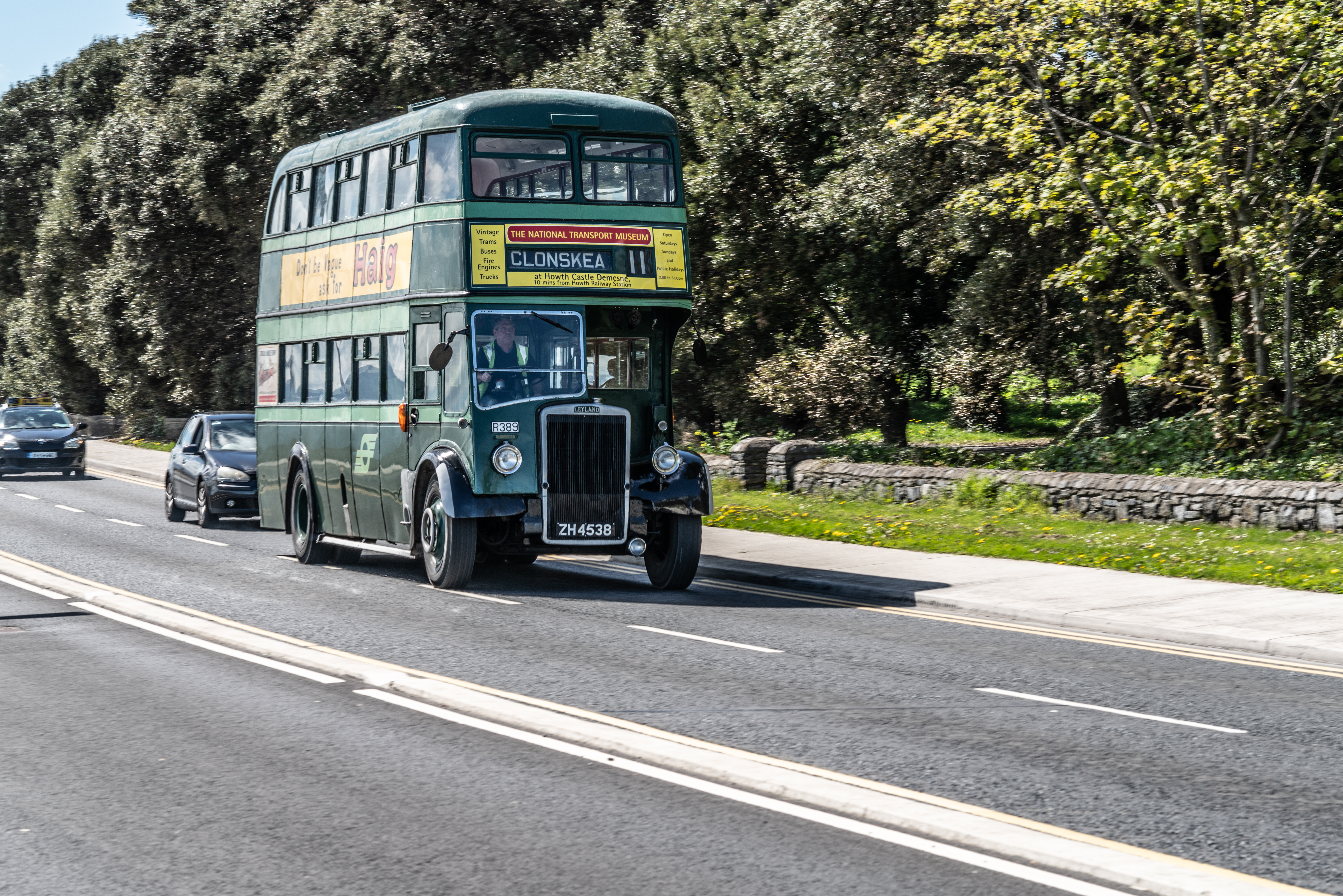 ZH4538 - Preserved Coras Iompair Eireann [CIE] "Bolton Class" Leyland Titan PD2 R389. Now owned by the National Transport Museum Of Ireland. If you are interested in buses you should visit